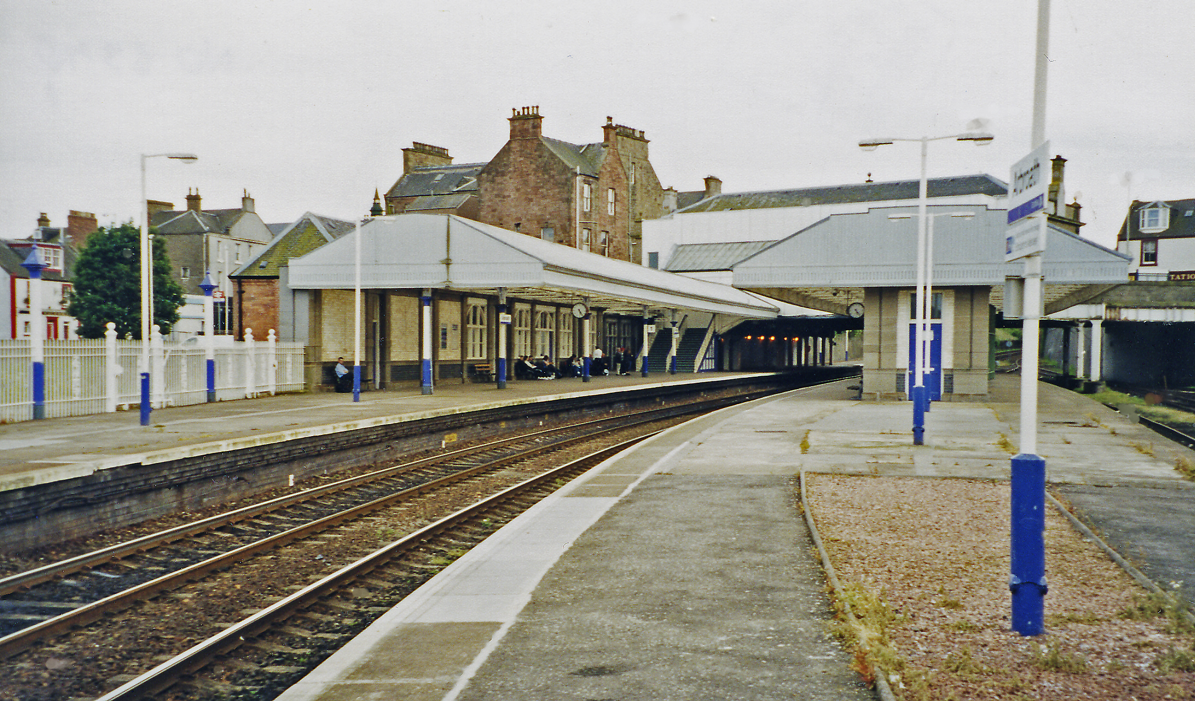 Arbroath station. View SW, towards Dundee etc.: ex-NBR & Caledonian Joint (Dundee & Arbroath Railway) on Dundee - Aberdeen main line, also until 5/12/55 (goods 25/1/65)junction for Forfar via Guthrie.